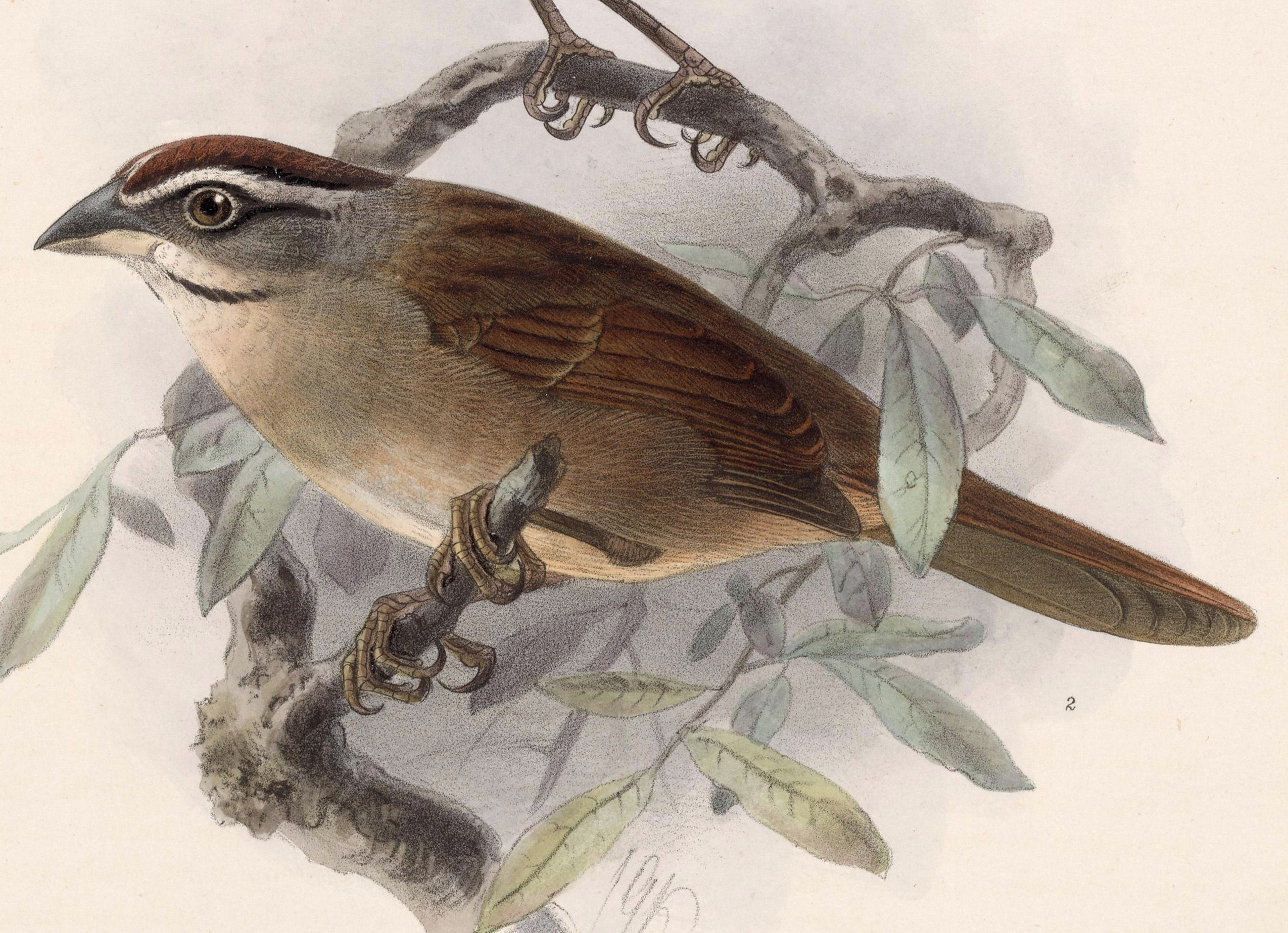 « Haemophila rufescens » = Aimophila rufescens (Rusty Sparrow)